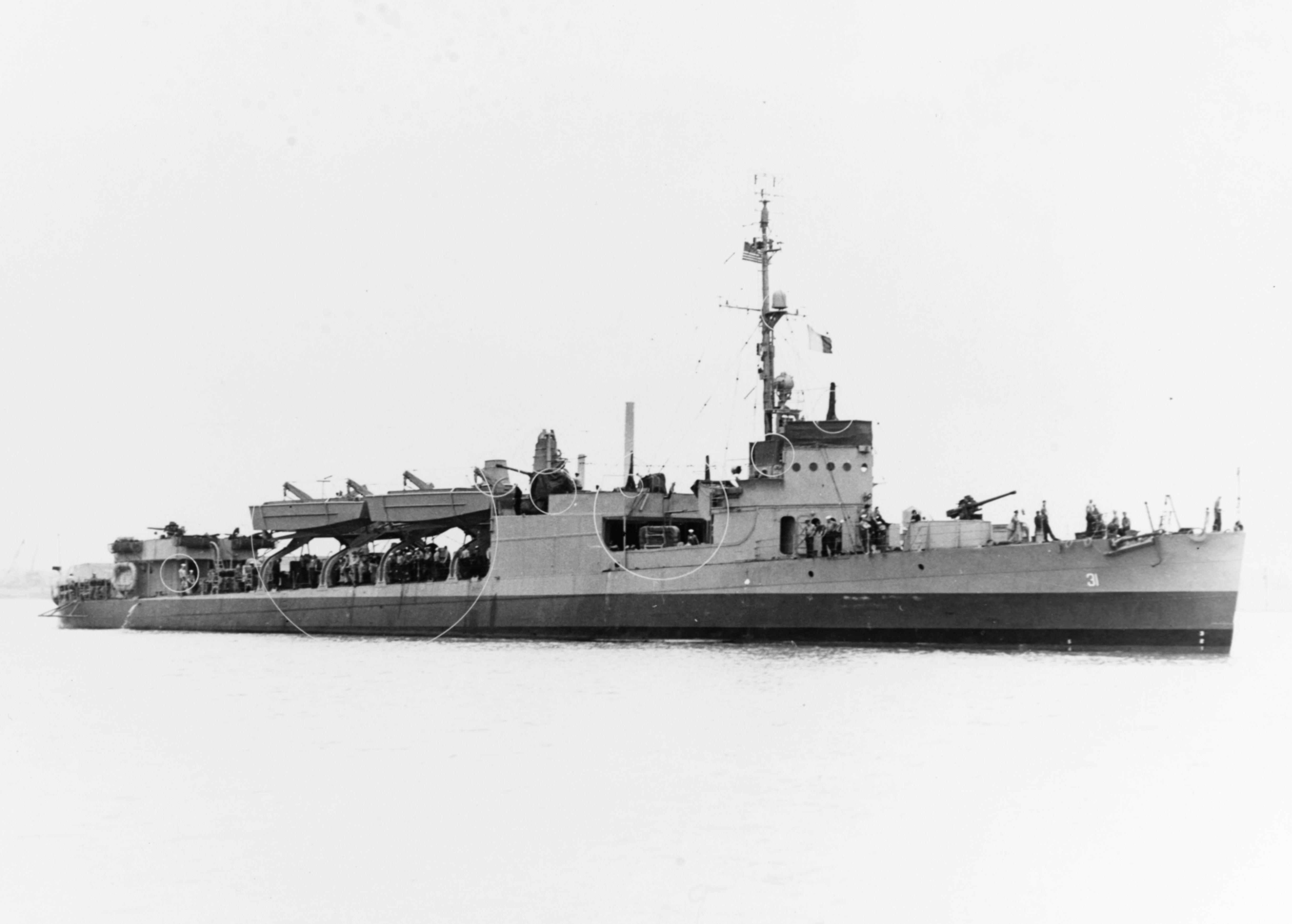 The U.S. Navy high speed transport USS Clemson (APD-31) off the Charleston Navy Yard, South Carolina (USA), on 21 April 1944, following conversion from a destroyer (DD-186, ex-AVD-4). The circles mark recent alterations.